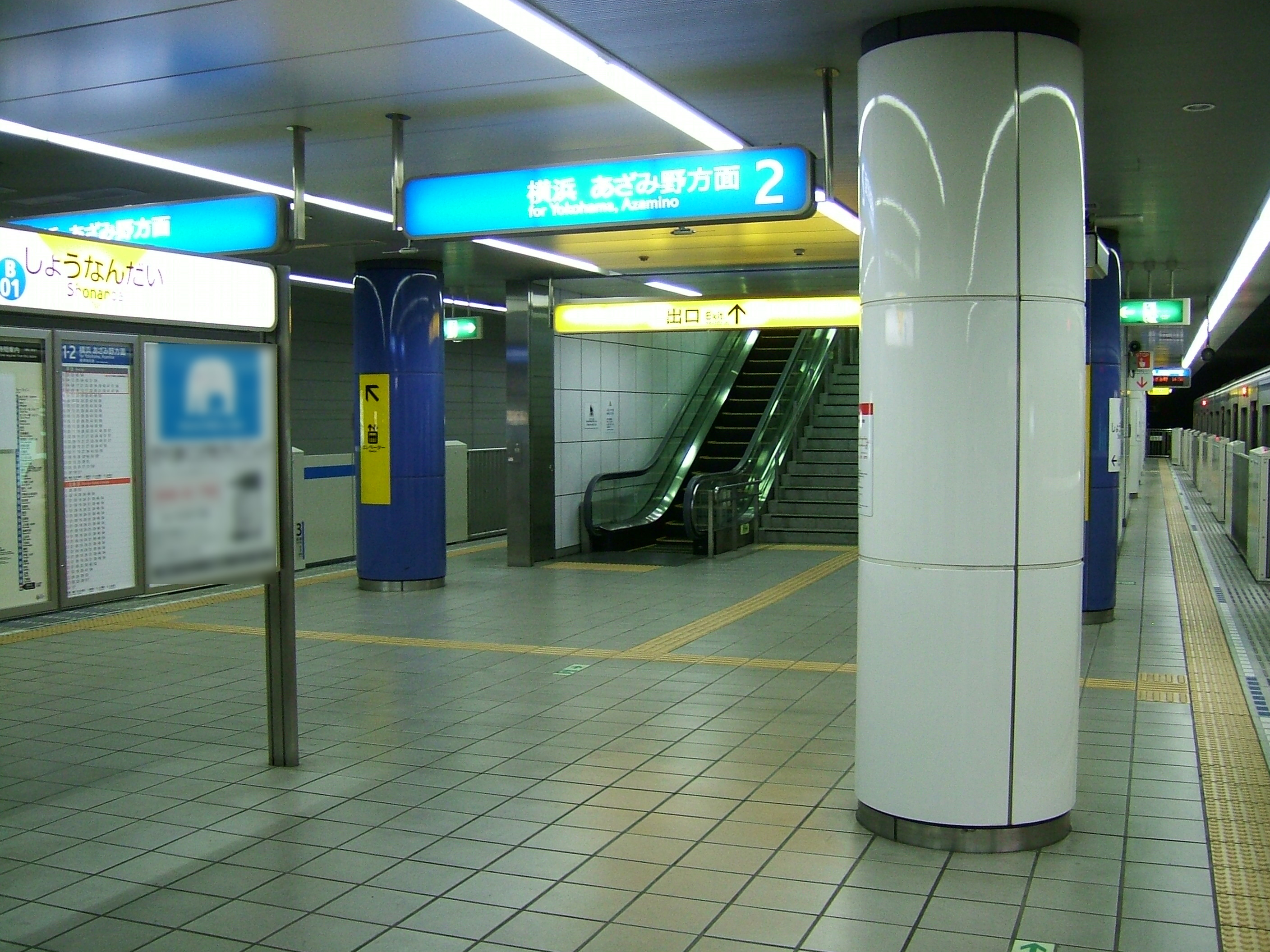 The platform at Shōnandai Station on the Yokohama Municipal Subway Blue Line in Fujisawa city, Kanagawa, Japan